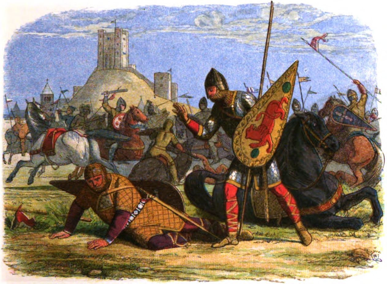 In the chaos of battle, Robert Curthose failed to recognise his father and wounded him. Likewise, William the Conqueror did not notice that it was his son who had wounded him.